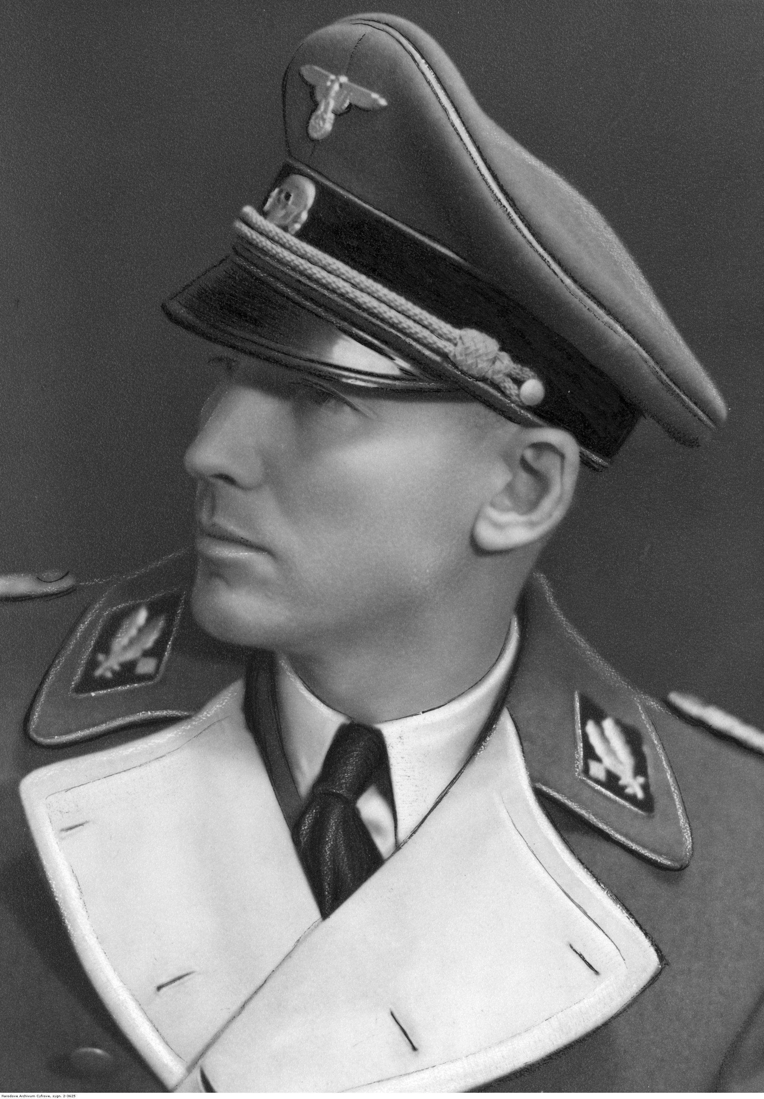 Otto von Wachter - the governor of the Krakow district. Portrait photography with hat.